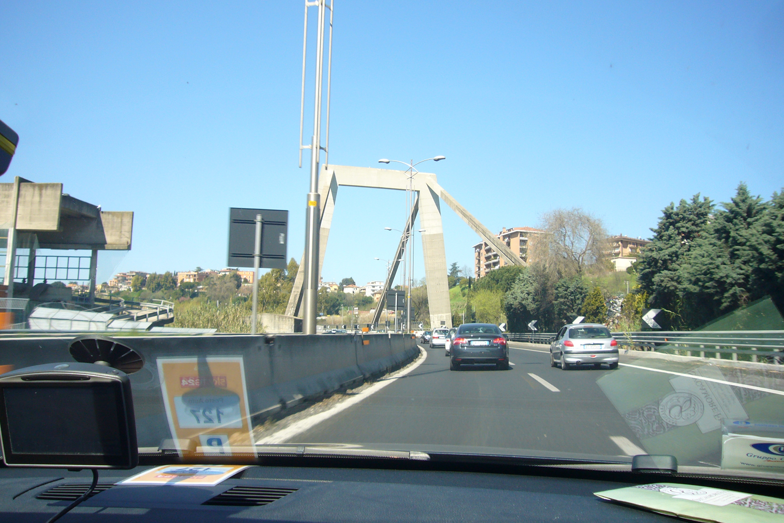 The Morandi viaduct on the Rome - Fiumicino Airport A91 Motorway